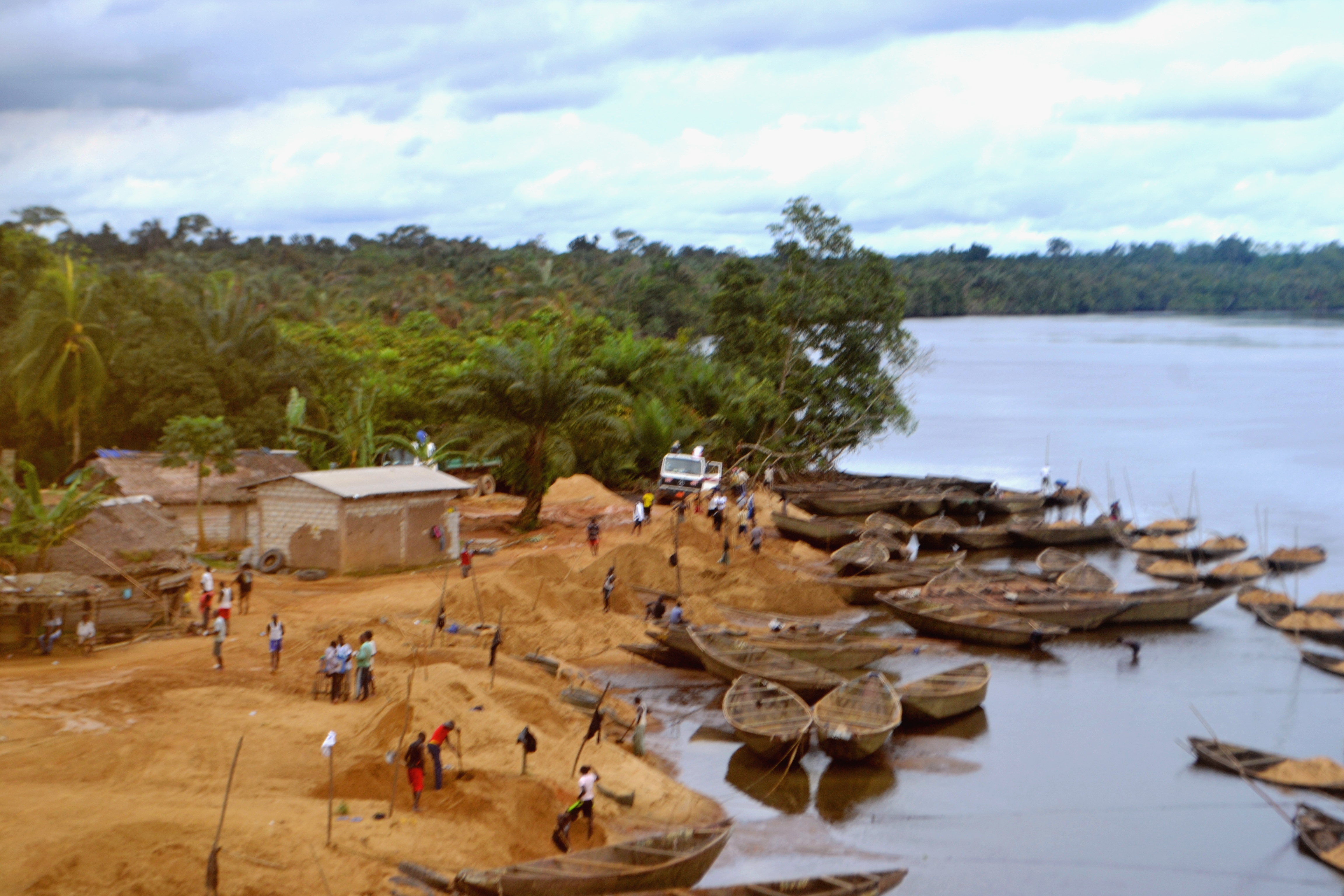 People working at the Dimbamba sand quarry in Cameroon This is an image of "African people at work" from Cameroon